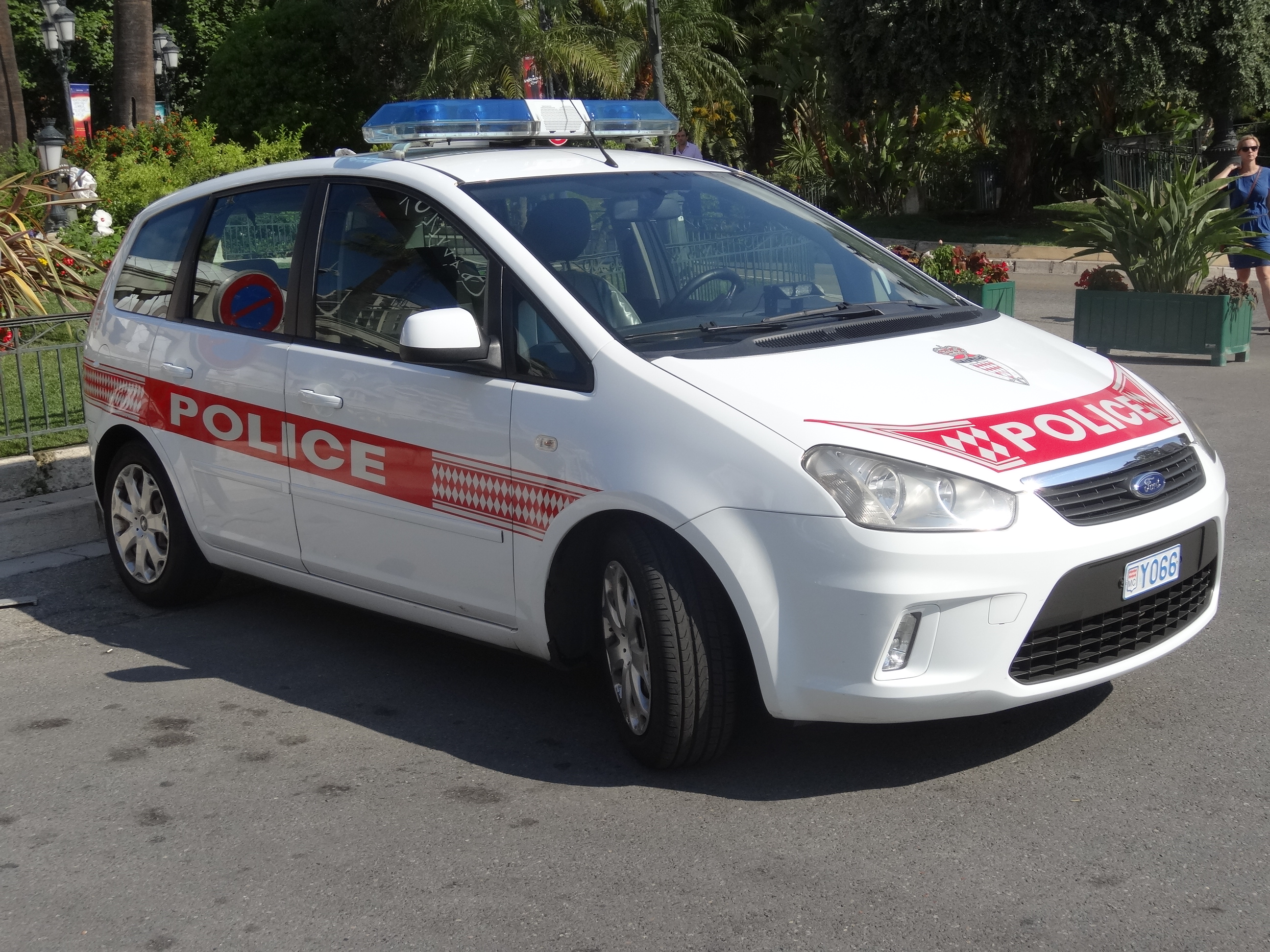 Place du Casino, Monte Carlo